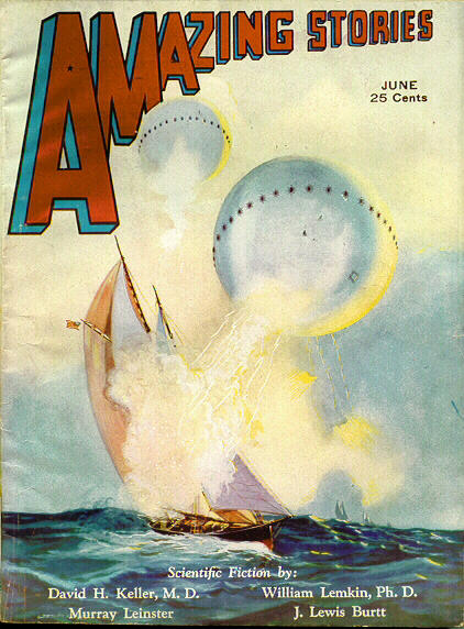 Cover to Amazing Stories, June 1932